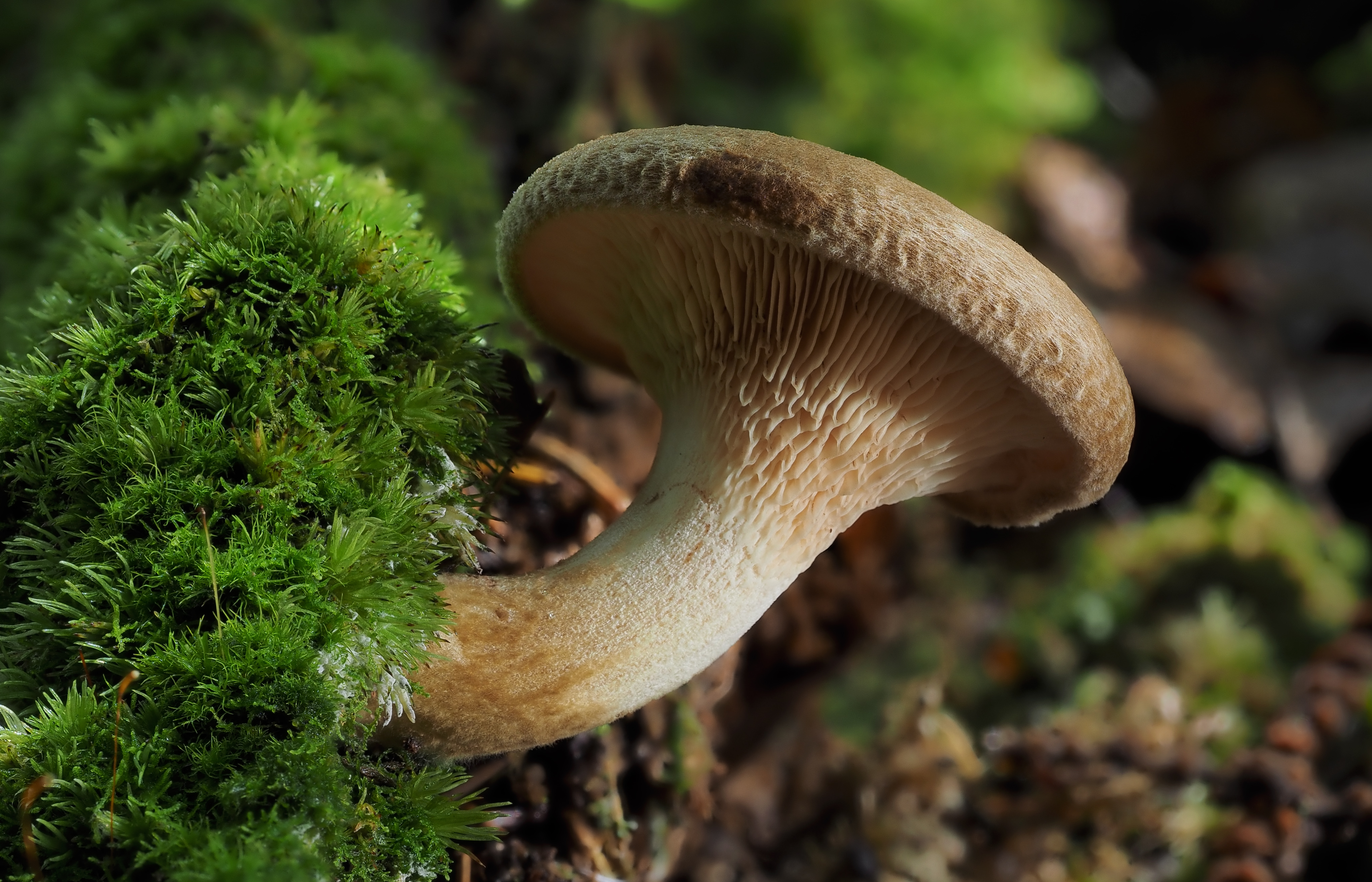 Paxillus involutus[1] mushroom in Golovec hill, Ljubljana, Slovenia. Tall around 5 cm, diameter of cap 4-5 cm.